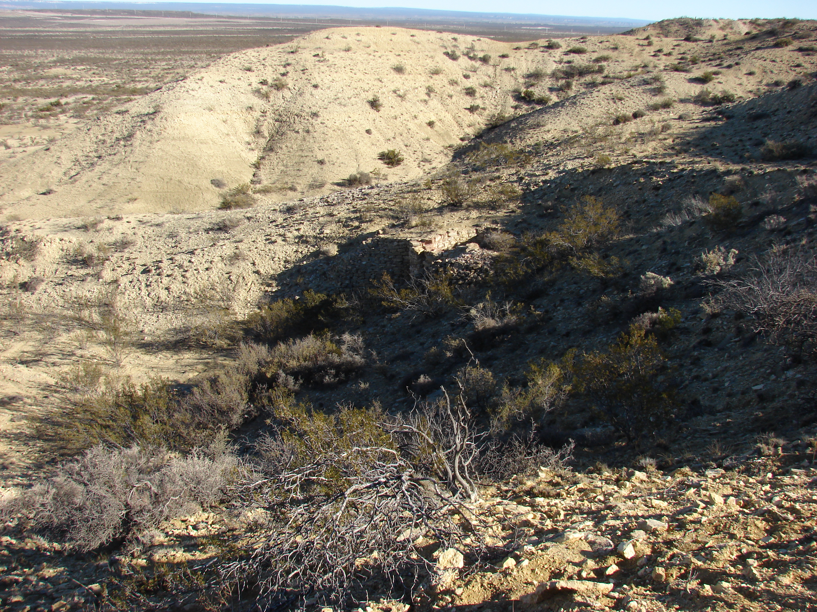 Roca Formation (Danian) in Barda Norte, the type locality of the Roca Formation, General Roca, Río Negro, Patagonia, Argentina.